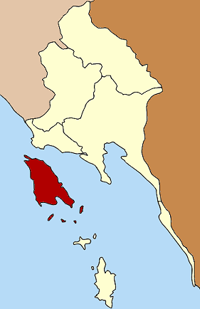 Map of Trat province, Thailand, highlighting Amphoe Ko Chang (geocode 2307).